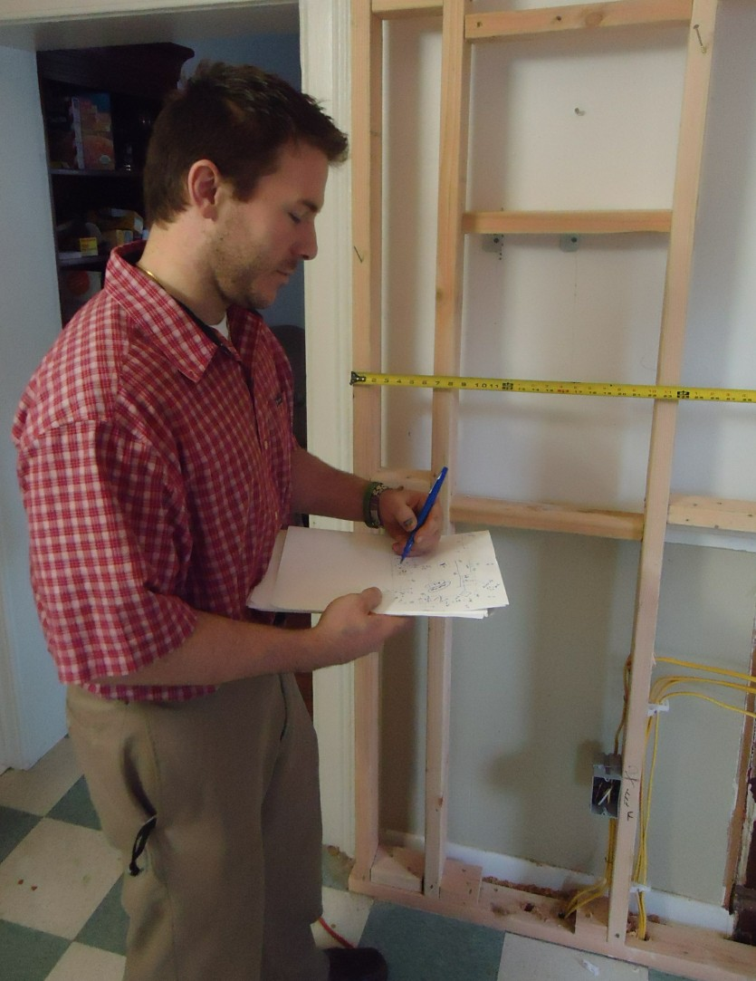 Architect Anthony Murphy takes measurements regarding a kitchen renovation project.